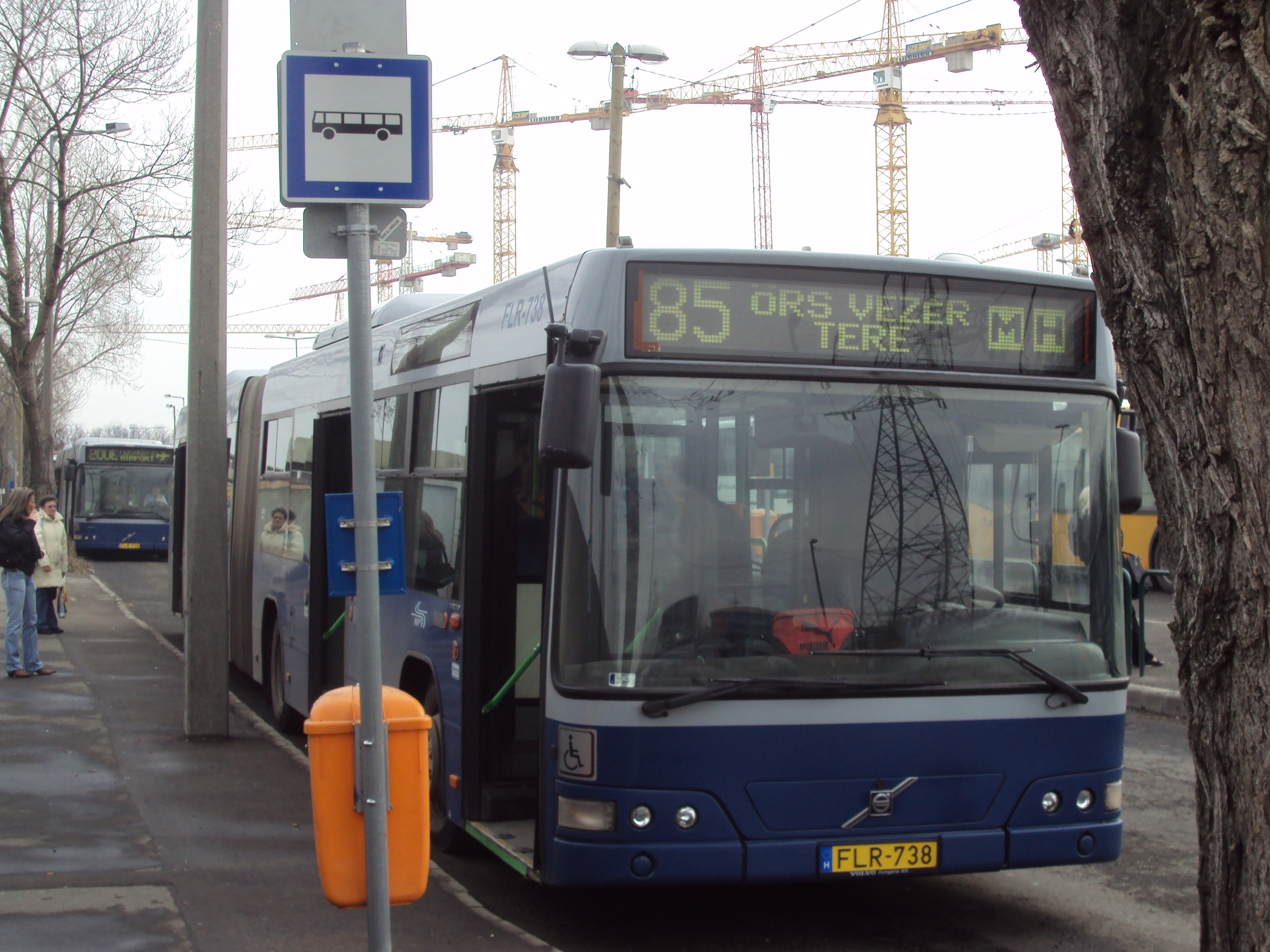 85 bus